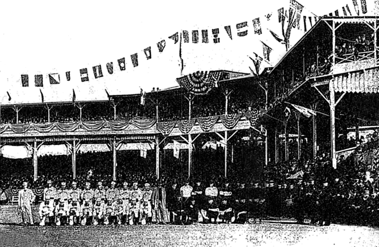 Photo scanned and downsized, from the book Ballparks of North America, by Michael Benson, 1989, p.255. The original would be from the 1880s.